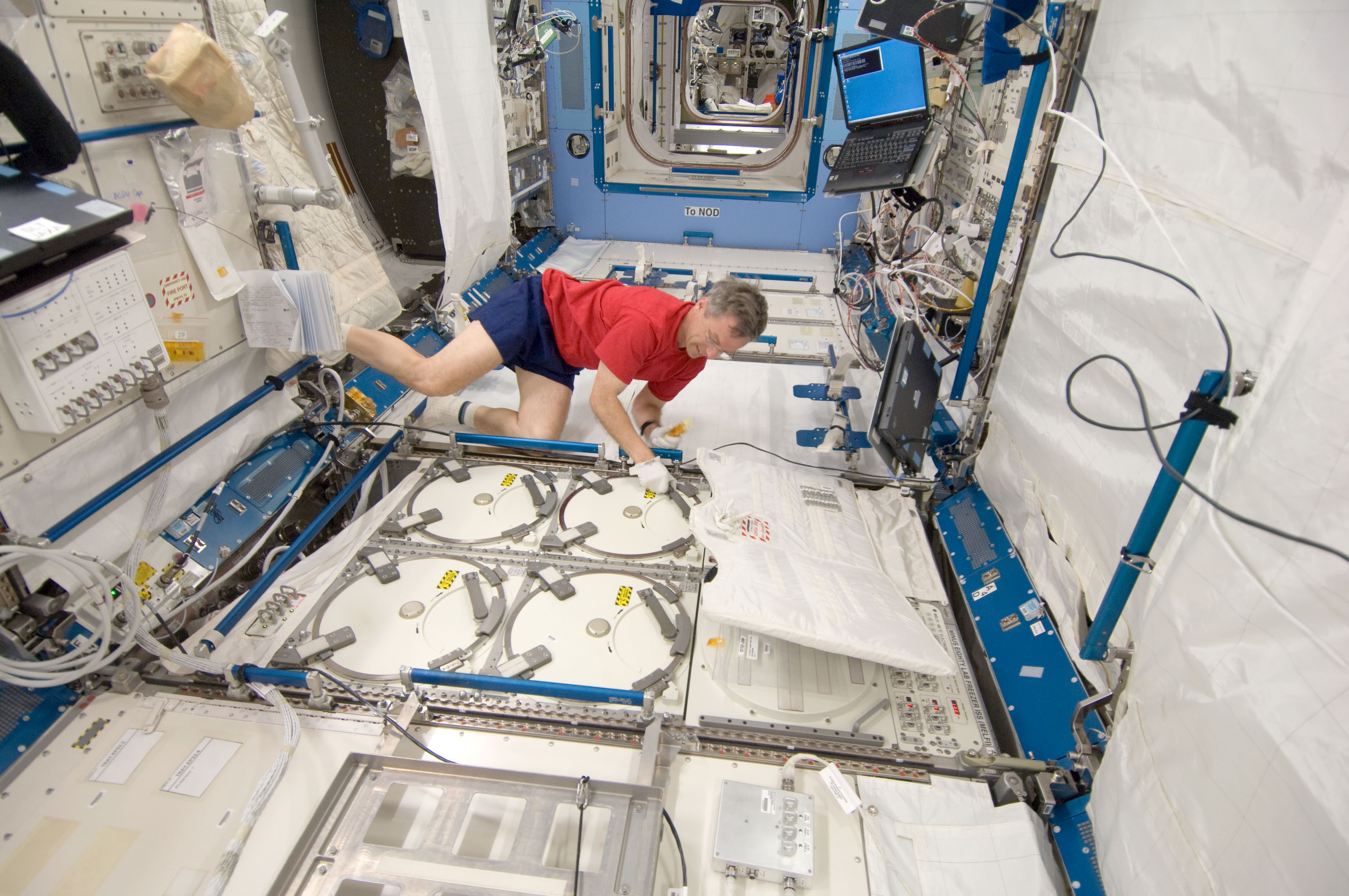 Canadian Space Agency astronaut Robert Thirsk, Expedition 20 flight engineer, performs an insertion of urine samples into the Minus Eighty Degree Laboratory Freezer for ISS (MELFI) as part of the Nutritional Status Assessment (NUTRITION) study in the Japanese Kibo laboratory of the International Space Station.